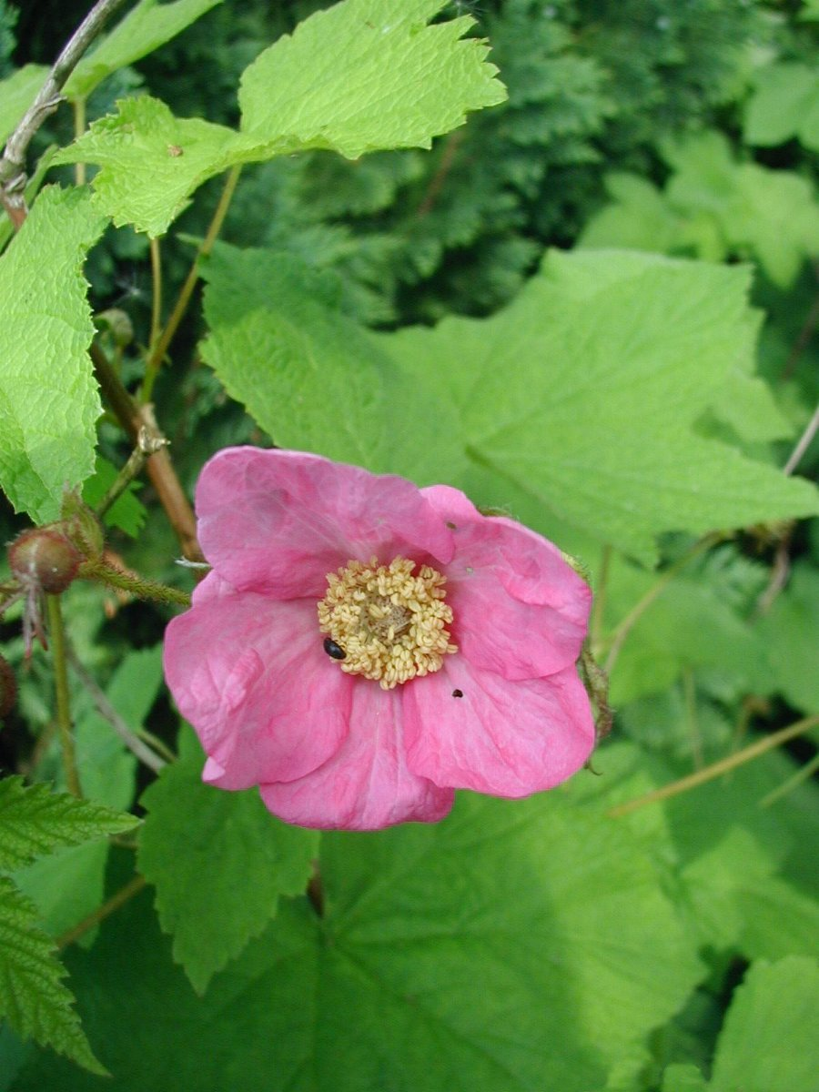 Description: Rubus odoratus, flower and leaves. Source: Own photo, taken in Jutland, May 2002. Author: Sten Porse Removed watermark read: Sten Porse 05-2002